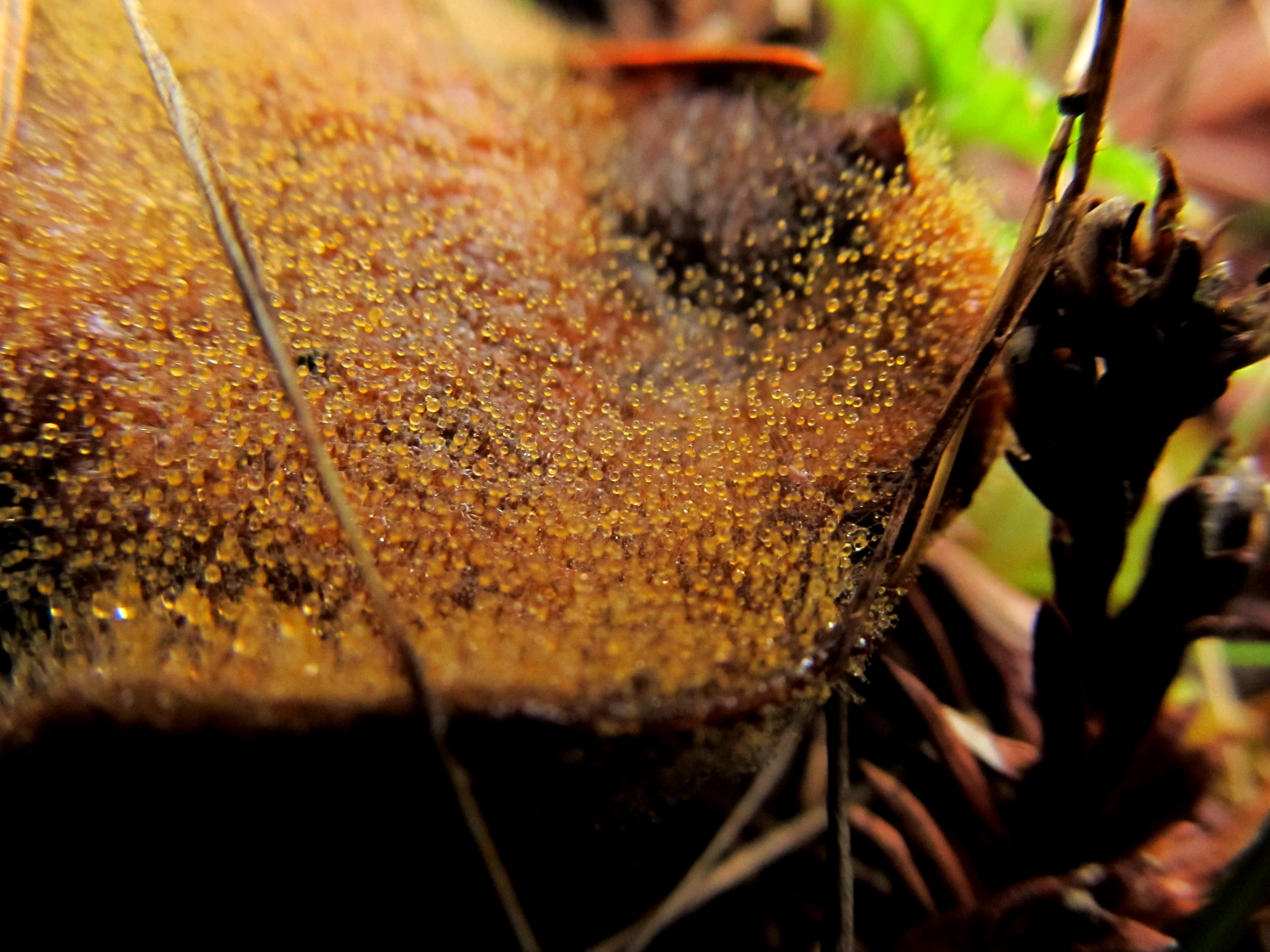 Dicranophora fulva J. Schröter